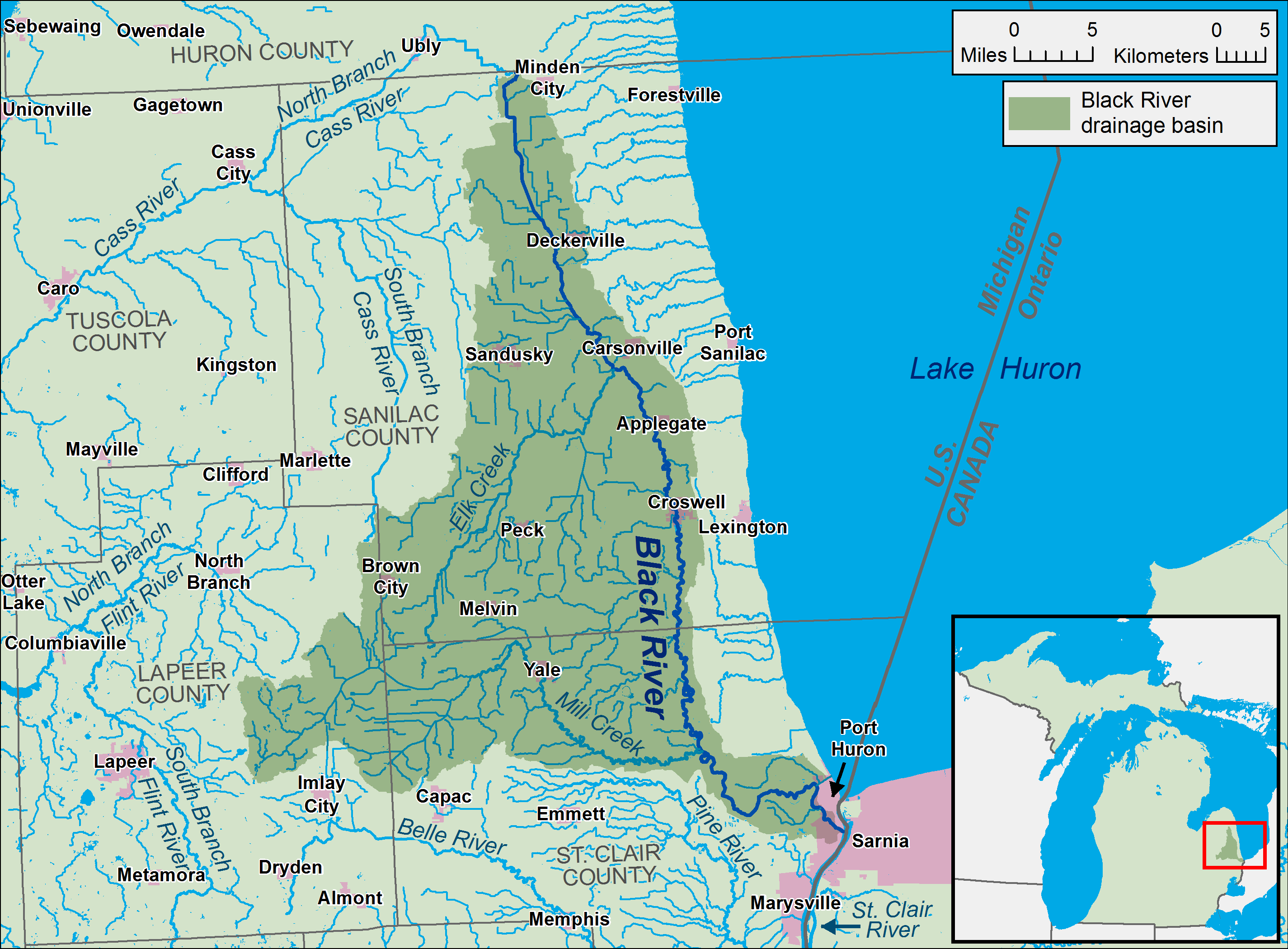 A map of the Black River and its watershed (USGS HUC-10 codes 0409000101 and 0409000102) in Sanilac and St. Clair counties in Michigan.